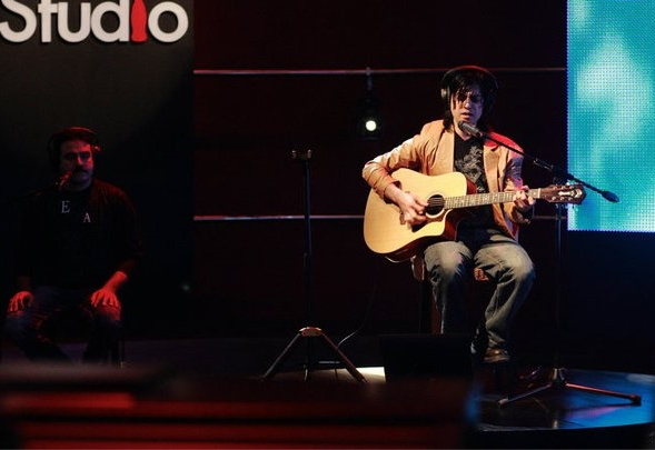 Mizraab performing live at Coke Studio season four episode one.